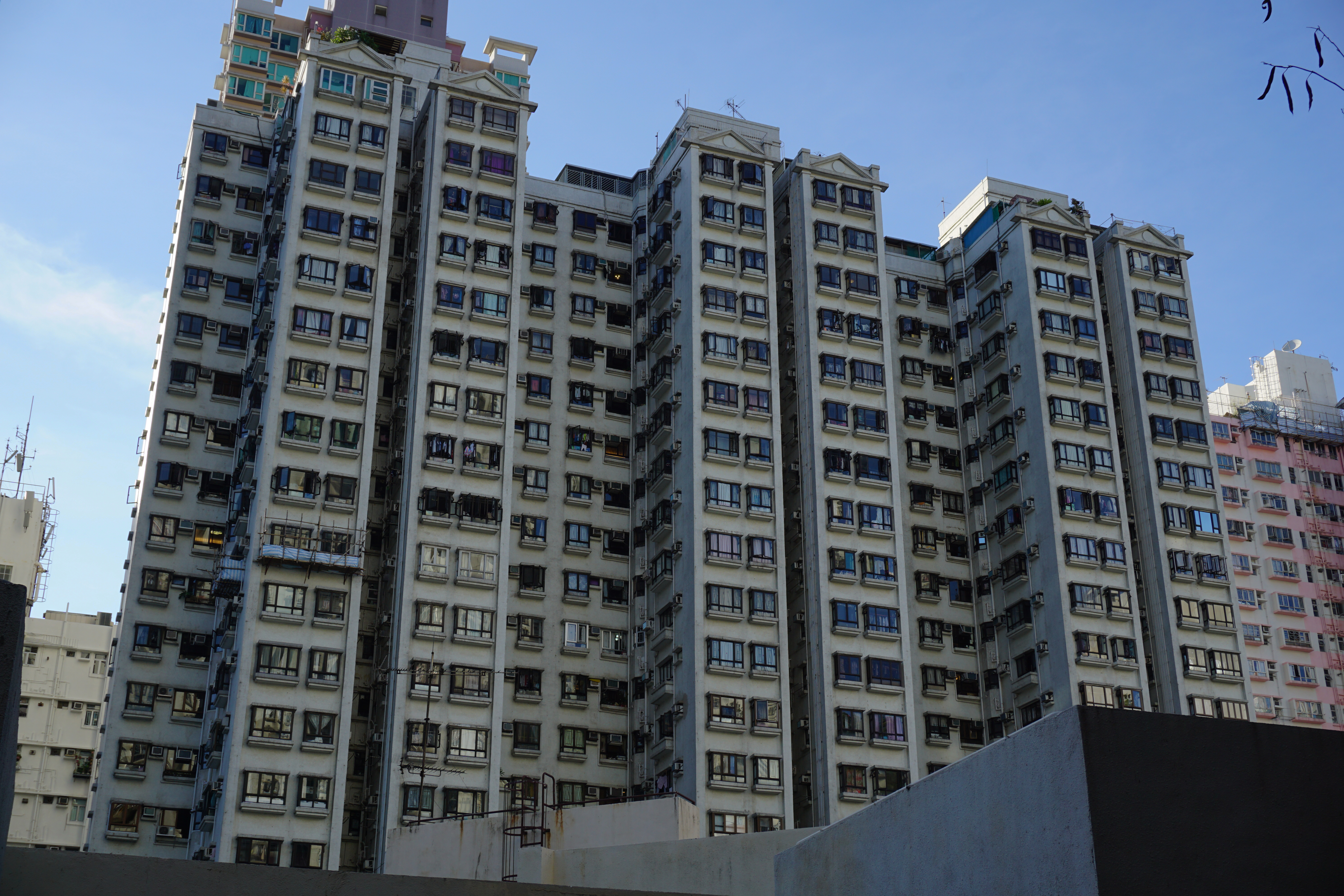 Ying Ga Garden in Kennedy Town, Hong Kong.